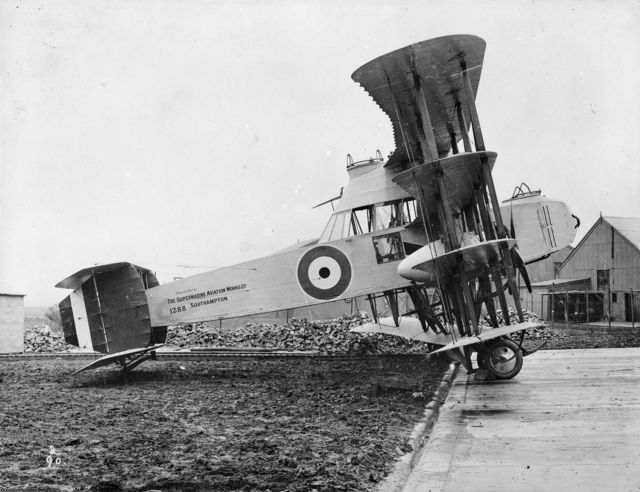 Side-view of the only Supermarine Nighthawk built, a British quadruplane intended for use as an anti-Zeppelin aircraft. The aircraft was equipped with a searchlight and armed with one offensive 1.5 pounder Davis gun with 20 rounds and a number of defensive Lewis guns.